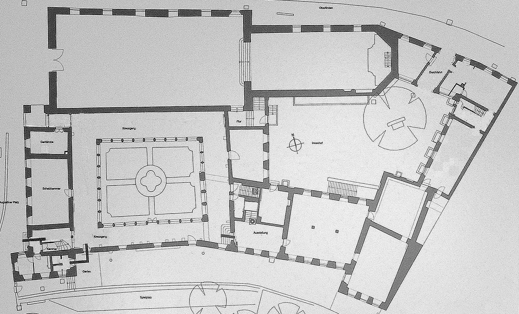 Picture of the Augustinermuseum in Freiburg (Breisgau) Germany. Floorplan generated from an outdatet fire rescue plan. Without yardstick.